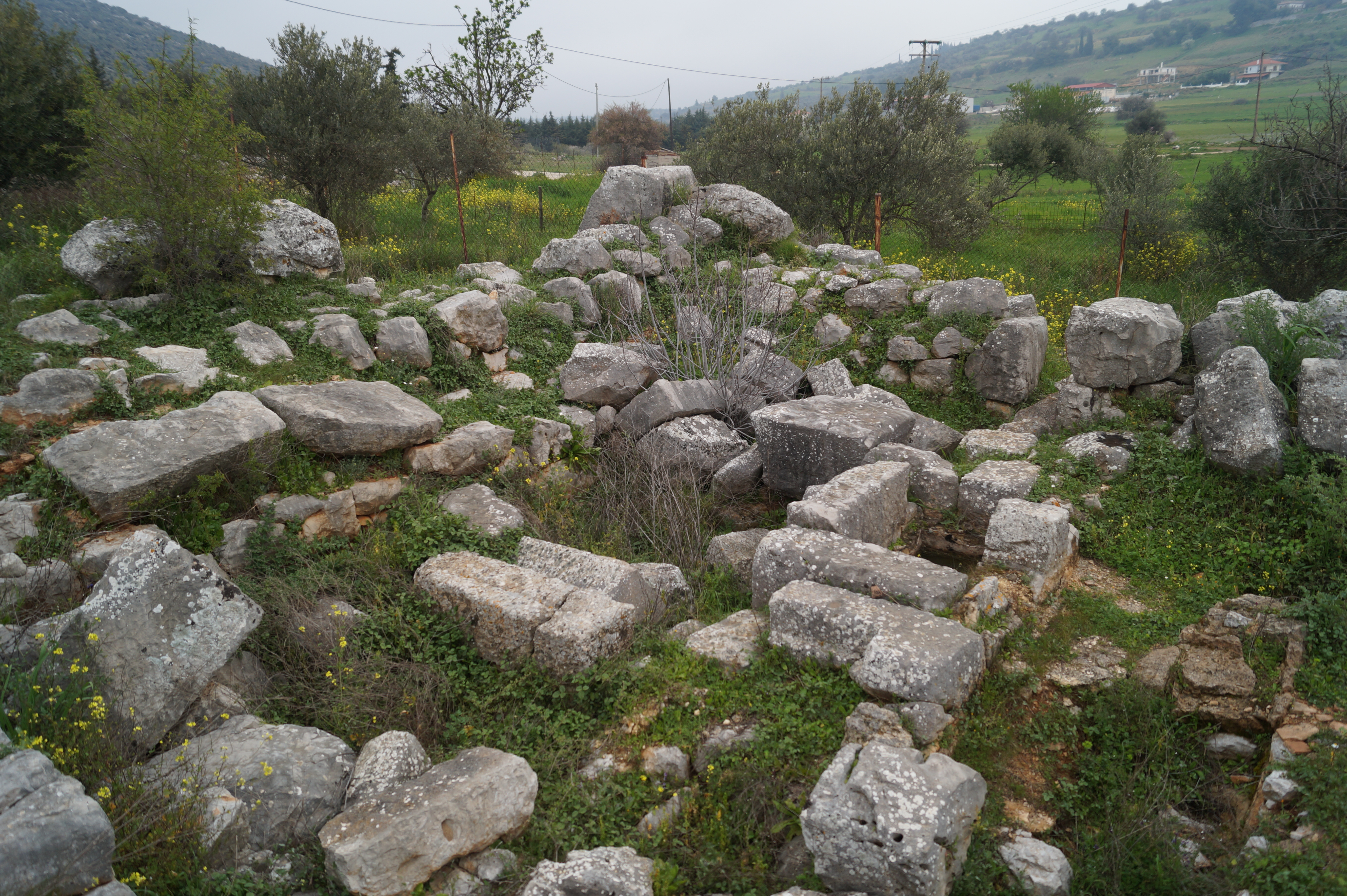 Lygourio, Argolis, Greece: Pyramid of Lygourio, south area. On the right there is a line of drain through the south wall.